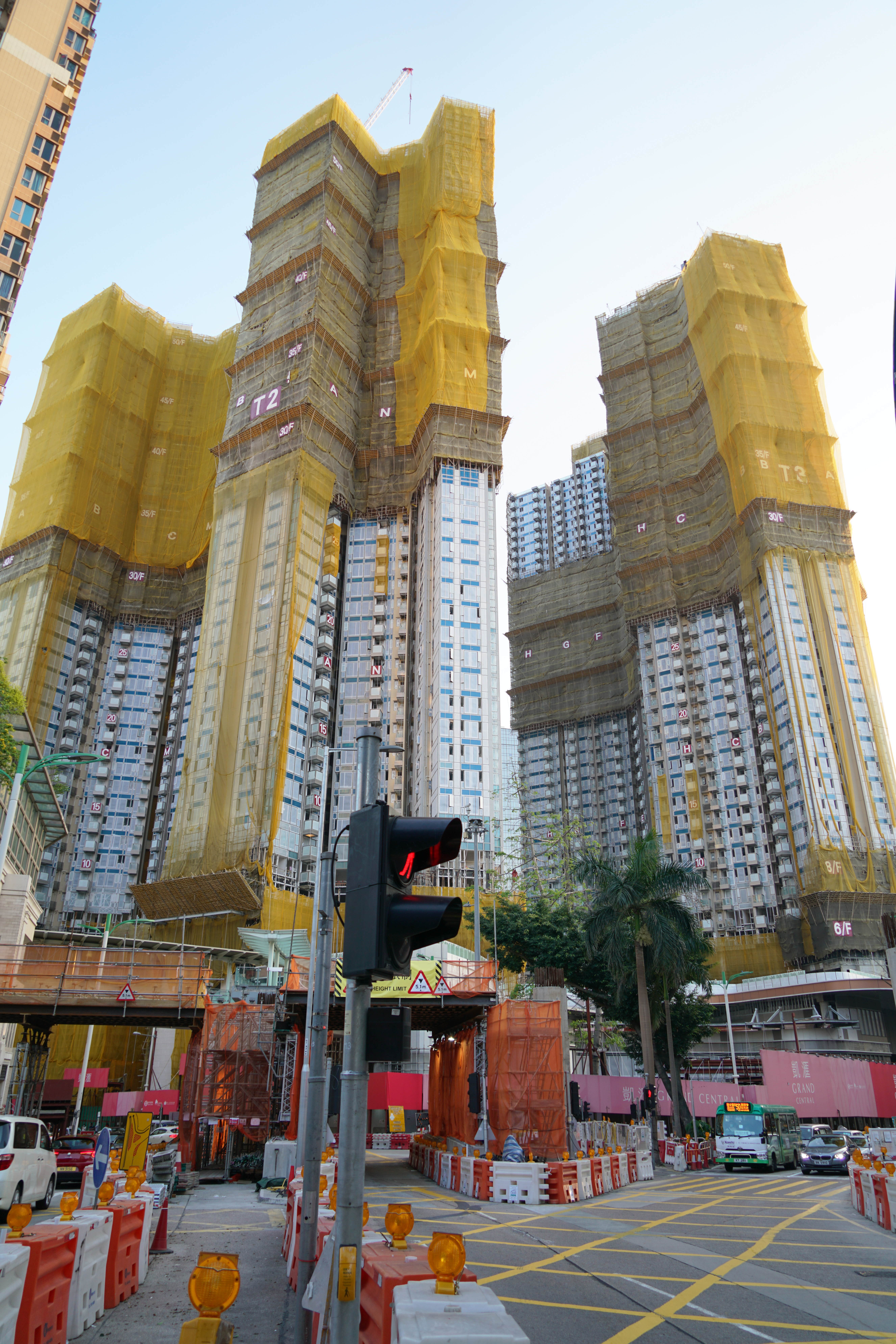 Grand Central, Hong Kong.